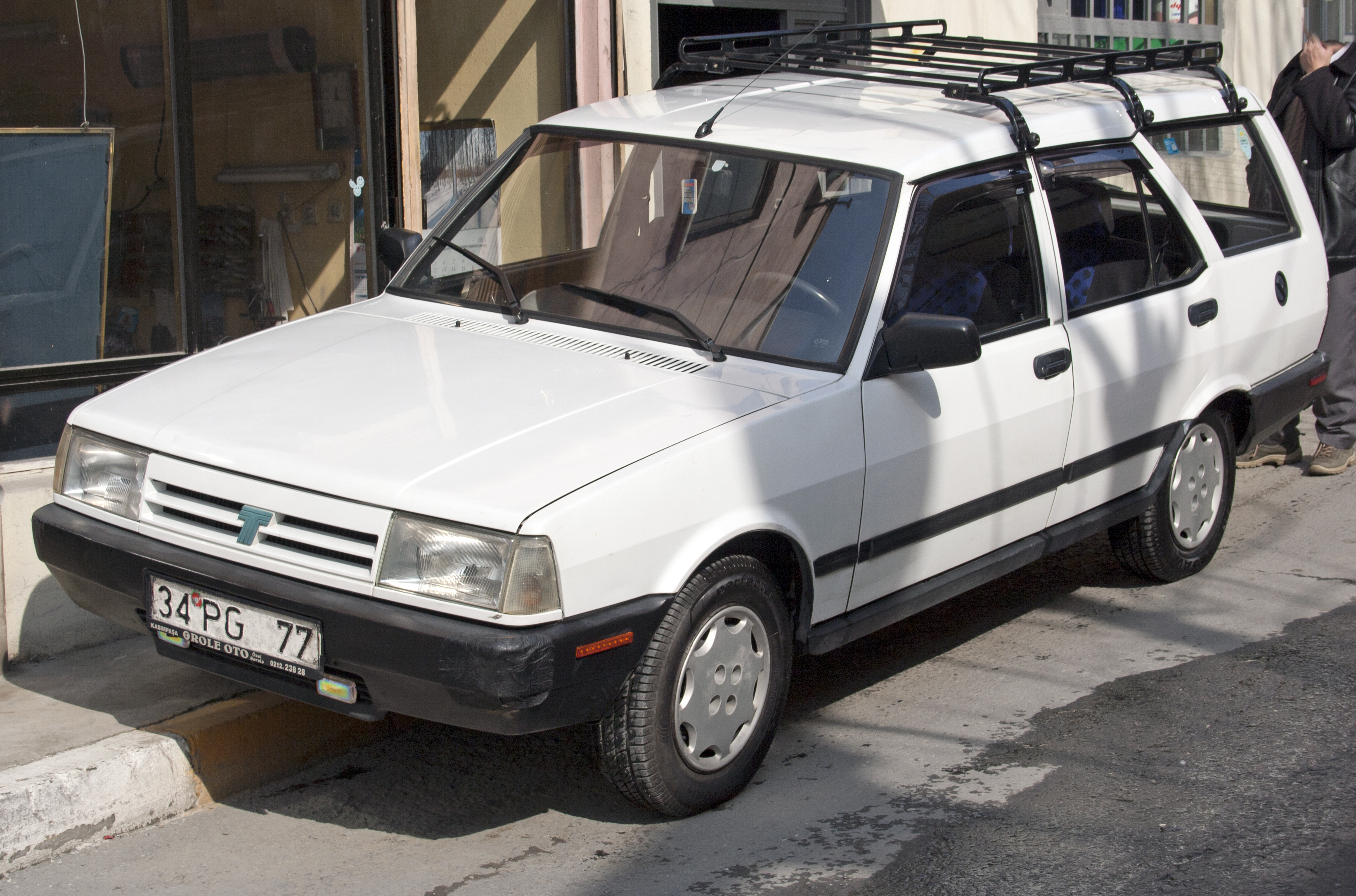 Tofaş Kartal in white, in Hasköy, Istanbul.